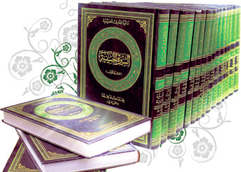 The Hussaini Encyclopedia is one of a kind encyclopedia completely themed on Imam Al-Hussain as a person, biography, thought and way of conduct, as well as on the social circle of personalities around him and also of places, chronicles and various other related subjects. It is authored by Sheikh Mohammed Sadiq Al-Karbassi. He stared work in September 1987 CE and has not stopped since, with his work exceeding 600 volumes and well over 95 million words.